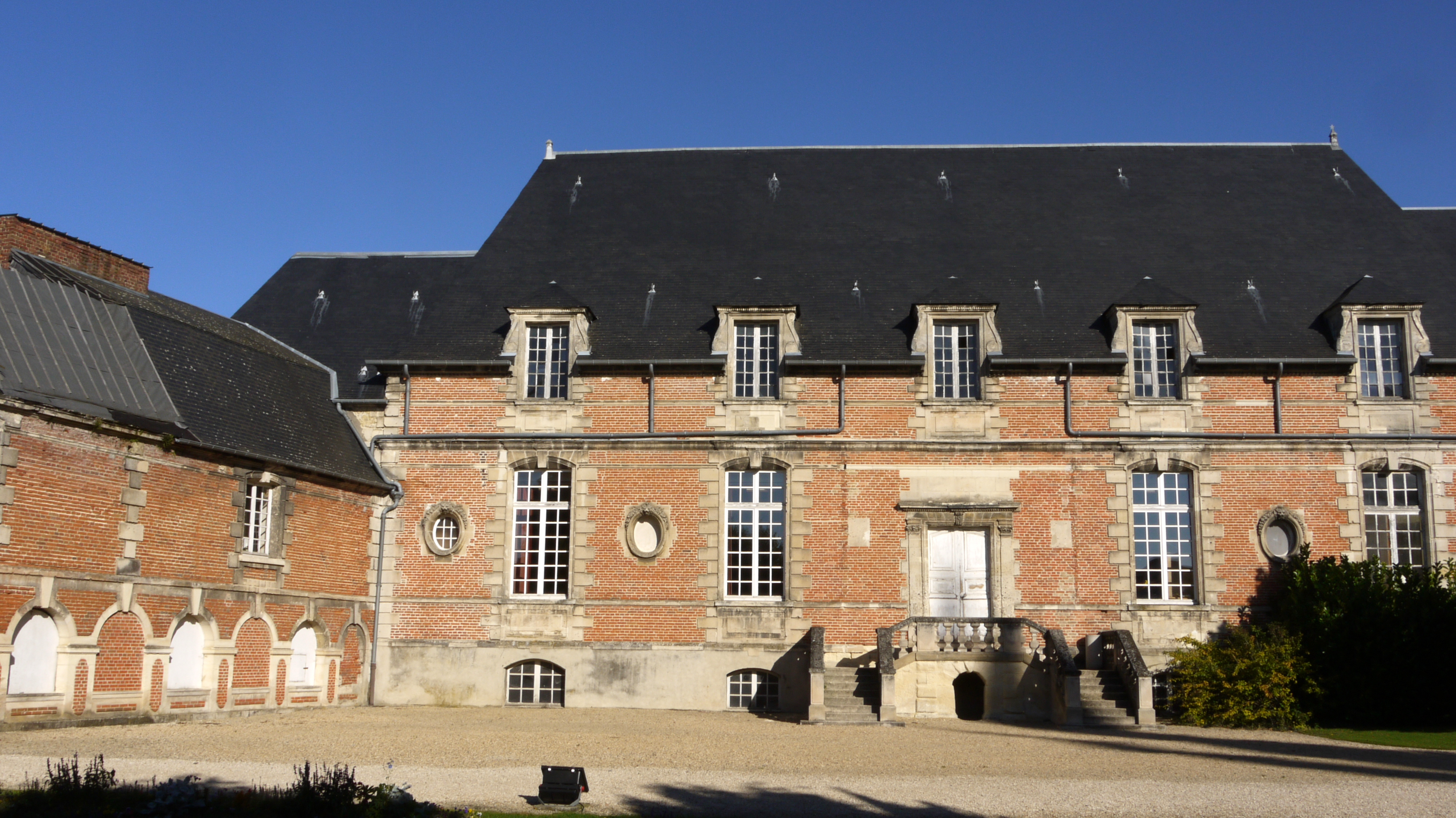 old abbey building of Saint Martin, Laon, Aisne, France